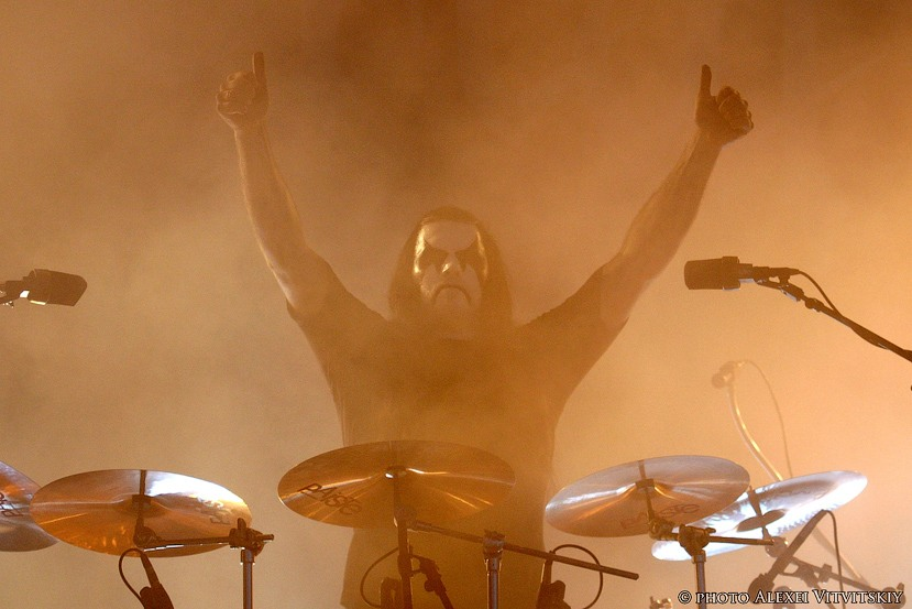 Horgh during the Immortal concert at the 2007 Wacken Open Air.